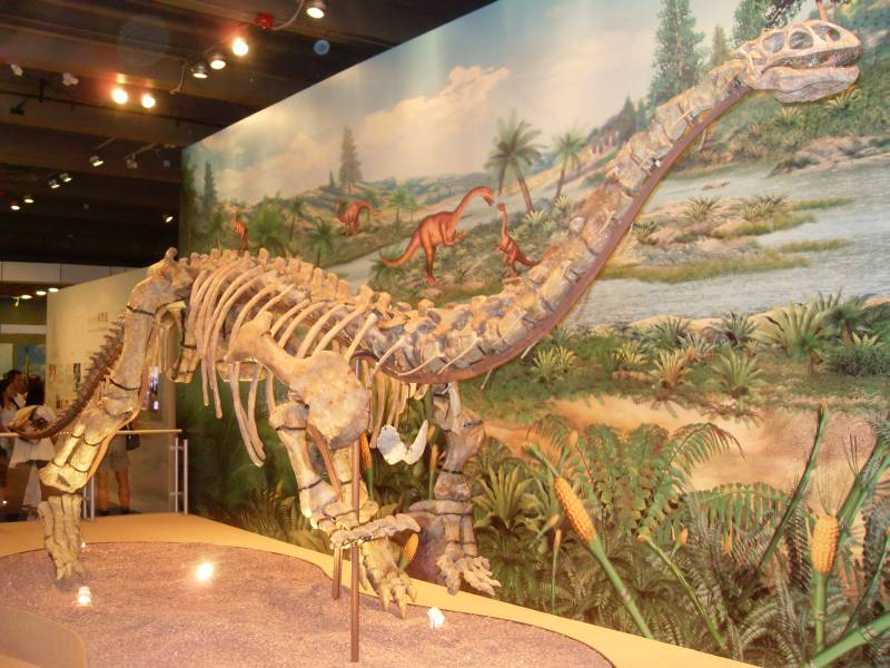 lufengosaurus displayed in Hong Kong Science Museum